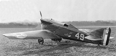 Picture of the Verville-Sperry R-3 racer